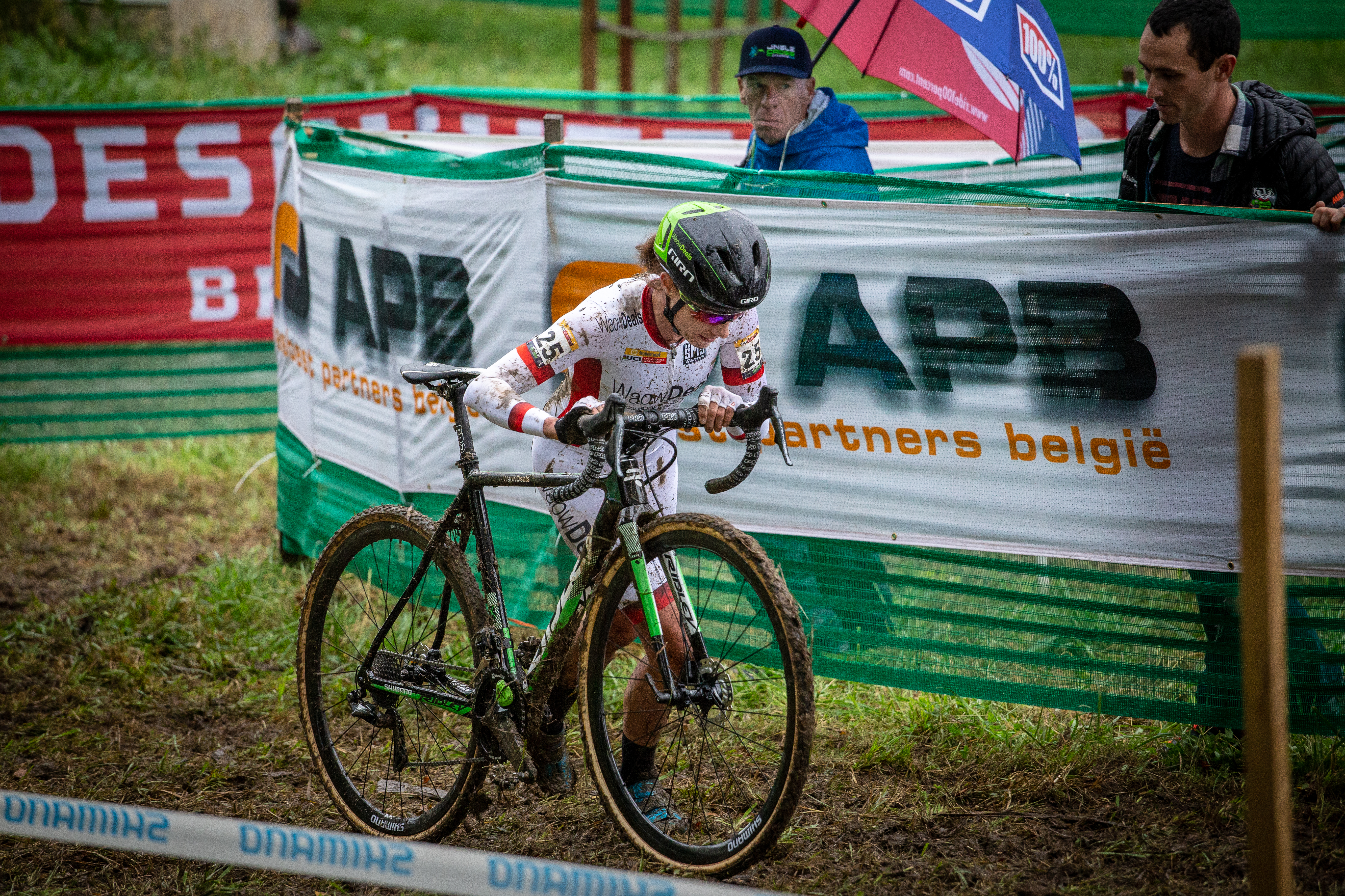 Photos from the 2018 Jingle Cross Cyclocross World Cup races in Iowa City. Toon Aerts (BEL) of Telenet-Fidea Lions won the men's race while current World Champion Wout Van Aert (BEL) was runner-up. Katie Keogh (USA) of Team Cannondale won the women's race while Evie Richards of Great Britain was runner-up.